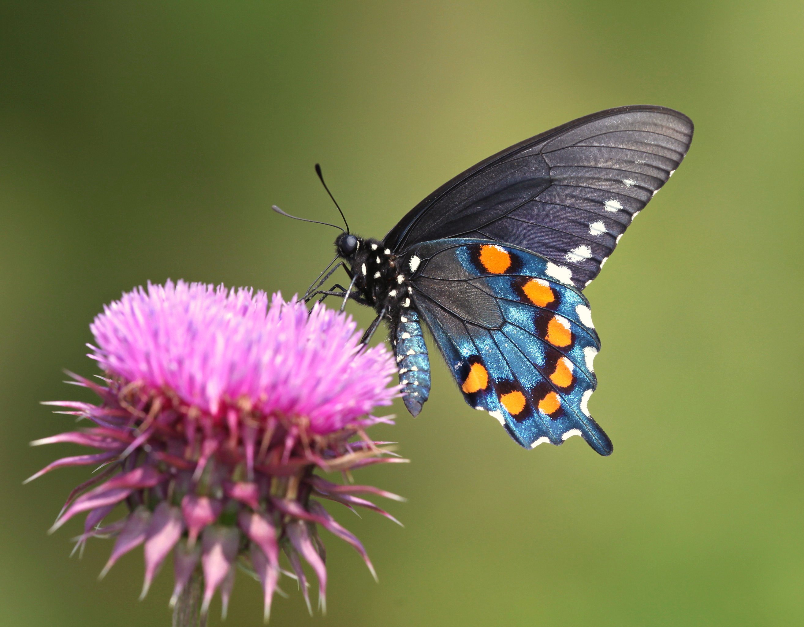 Like many of the black swallowtails, the Pipevine Swallowtail has pretty orange spots. The orange color is caused by deposits of pigment. The Pipevine also glows an iridescent blue color when viewed in bright sunlight. This is not caused by pigment but rather by a process called Thin-Film Interference (TFI). The process of TFI is dependent on the angle of the light hitting the butterfly. I have found through trial and error that early morning and late afternoon are the best times to catch this blue color. I assume it is because the sun is lower in the sky at these times and hits the wings near to the perpendicular. Mid day it is harder to catch the blue color with as much intensity. The above shot was taken close to 10:00 am which is about when the butterflies really begin to appear and, coincidentally, is about when I have had enough coffee to venture outdoors. Thin-film interference (TFI) is a process that causes certain frequencies of reflected light to cancel (destructive interference). This occurs when light reflects from inner and outer layers of a surface. When the distance between the membrane surfaces is close to the wavelength of visible light, the process of TFI can turn white light into the colors of the rainbow. TFI is the same phenomenon that causes color in soap bubbles and oil films. To view the phenomenon in the Pipevine it is handy for them to land with wings facing the sun. Below I demonstrate and discuss the phenomenon of "thin-film interference" or TFI. Even with a degree in Physics I have a hard time understanding the math but the phenomenon is easy to demonstrate in the Pipevine Swallowtail. It is far better to see it in real life.